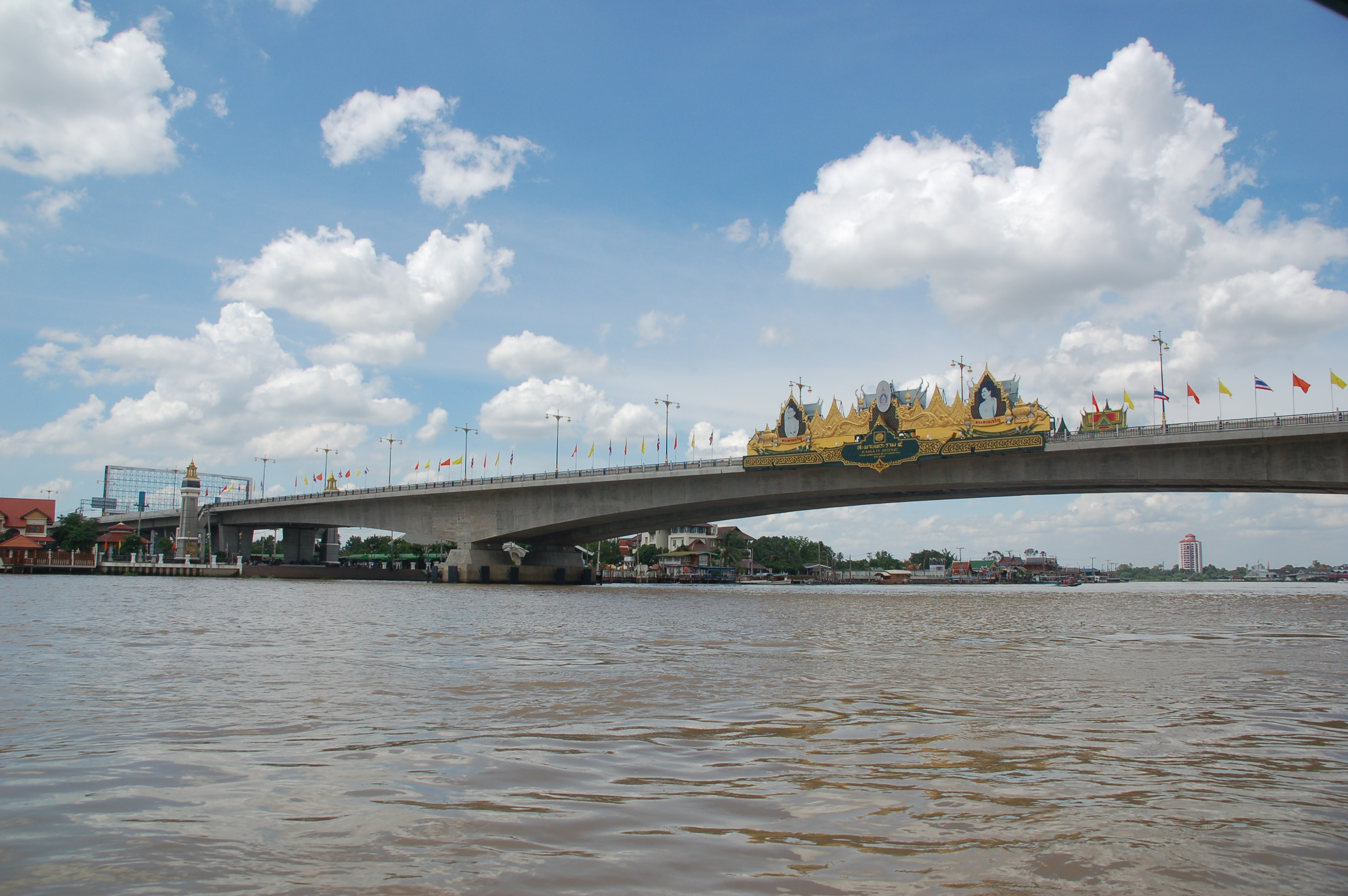 Rama 4 bridge, taken from a Koh Kred ferry boat. The time was about 14:00 on 2008-8-21, during the grand opening ceremony presided by HRH Crown Prince Vajiralongkorn and HRH Princess Srirasmi.